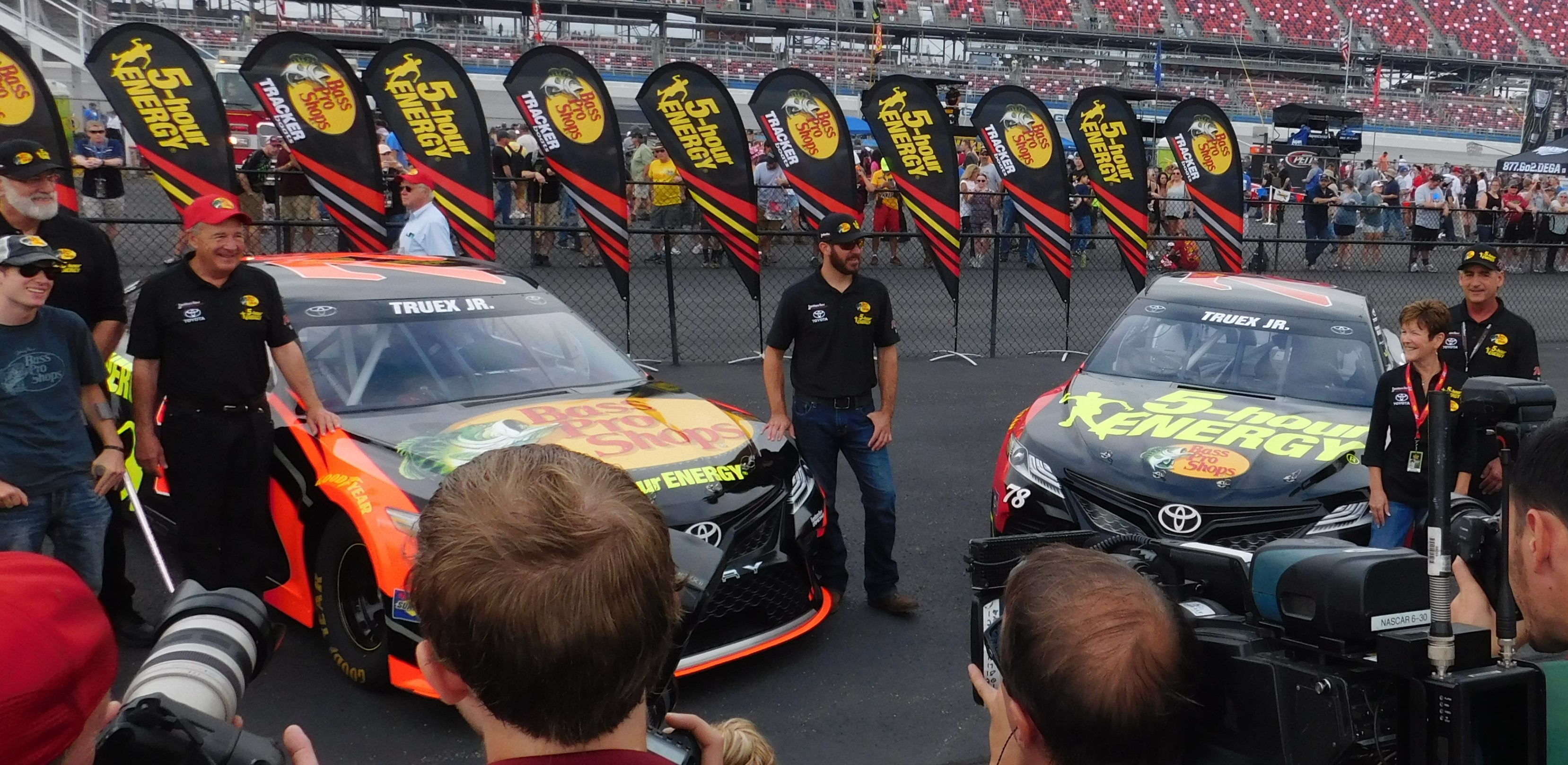 Martin Truex Jr. at Talladega Superspeedway in 2017